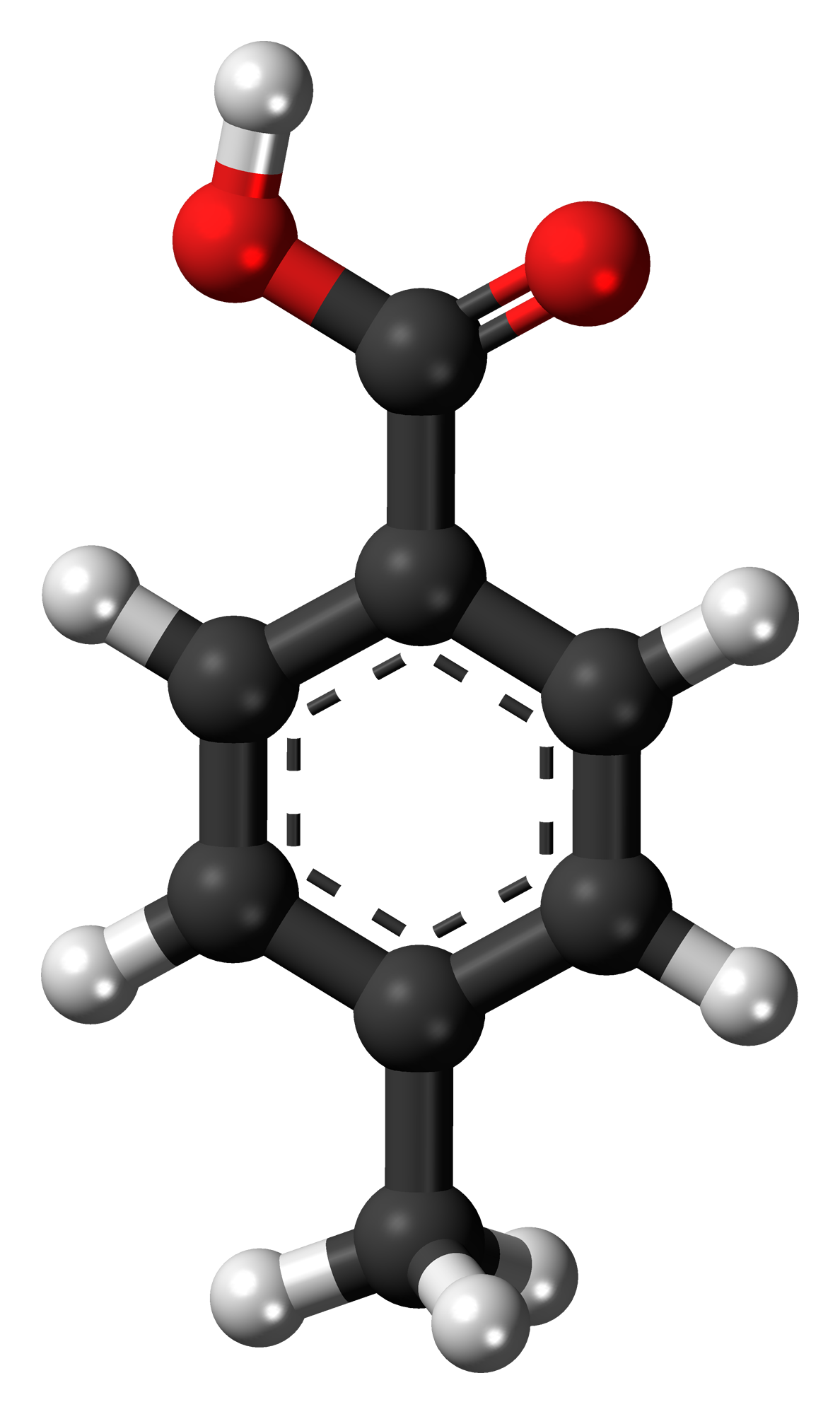 Ball-and-stick model of the p-toluic acid molecule, also known as 4-methylbenzoic acid, one of the three isomers of toluic acid. Colour code: Carbon, C: black Hydrogen, H: white Oxygen, O: red